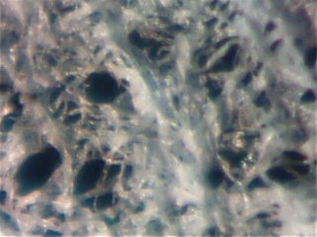 80X Microscopic image of pulp in tissue paper